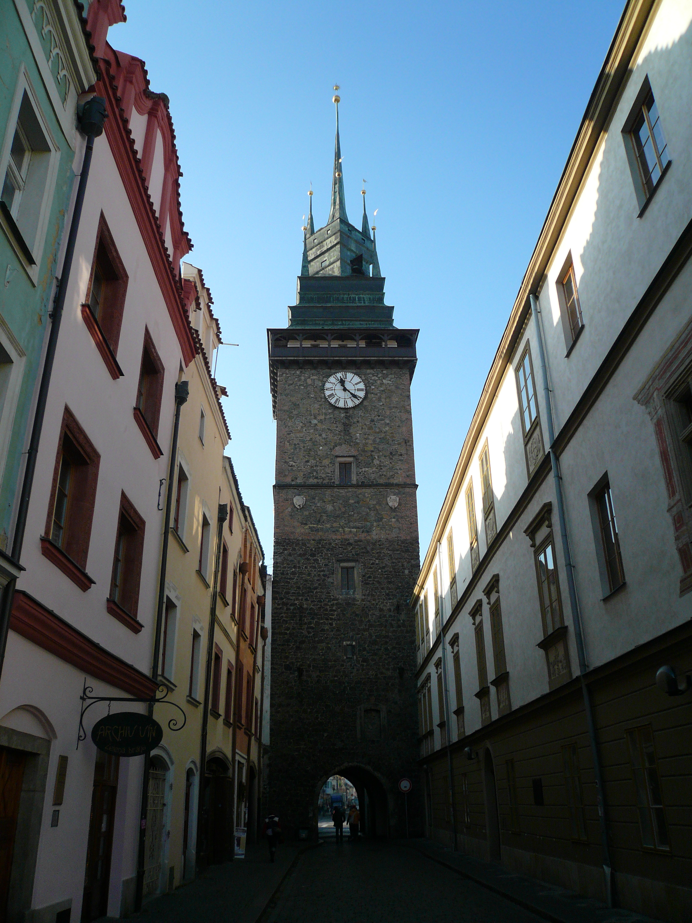 Historical landmark in Pardubice, Czech Republic.